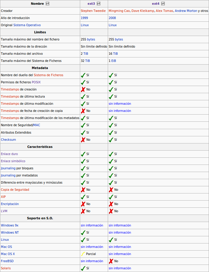 Comparison chart(table) between ext3 and ext4 file systems